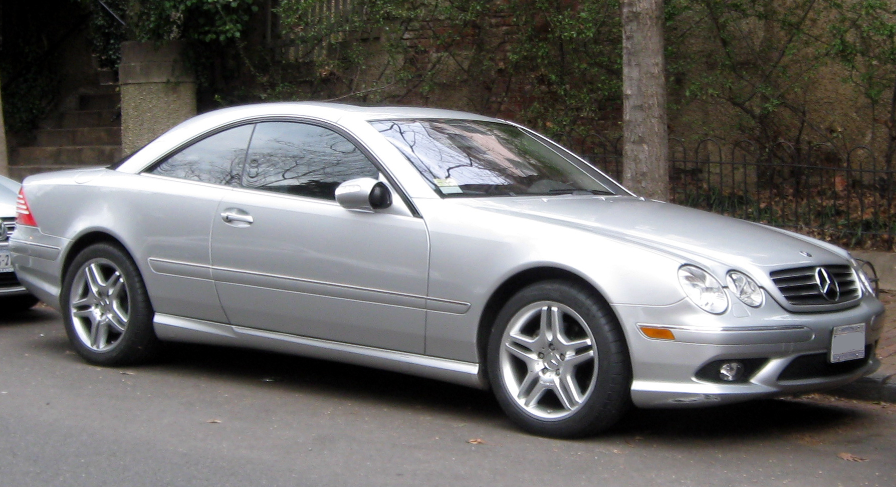 Mercedes-Benz CL photographed in Washington, D.C., USA.